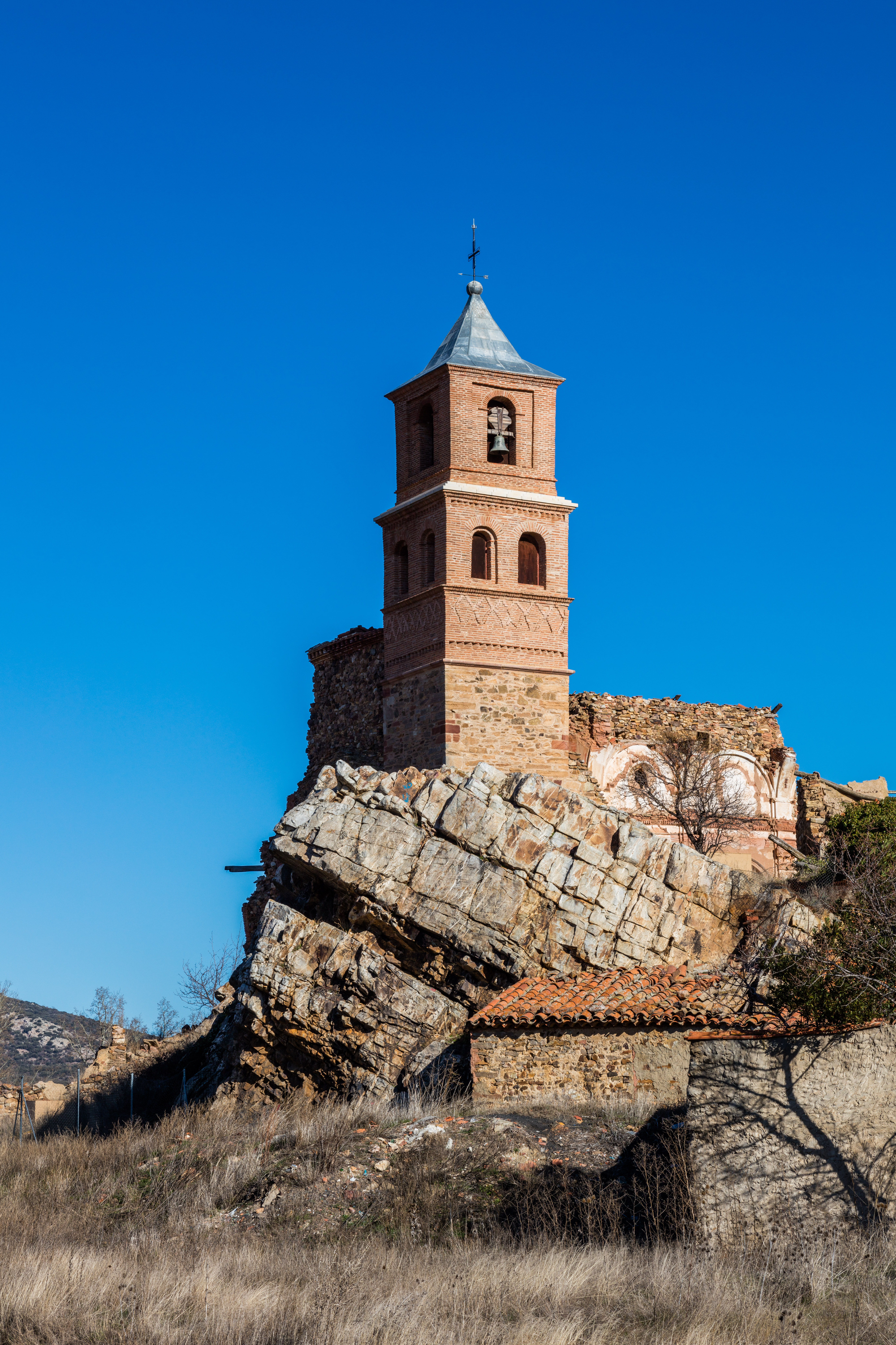 Church of Our Lady of La Junquera, Luesma, Saragossa, Spain